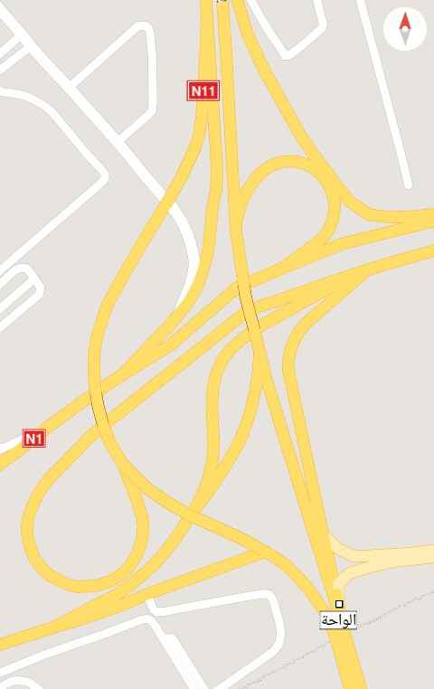 National route 1 & National route 11 junction point near to Casablanca.